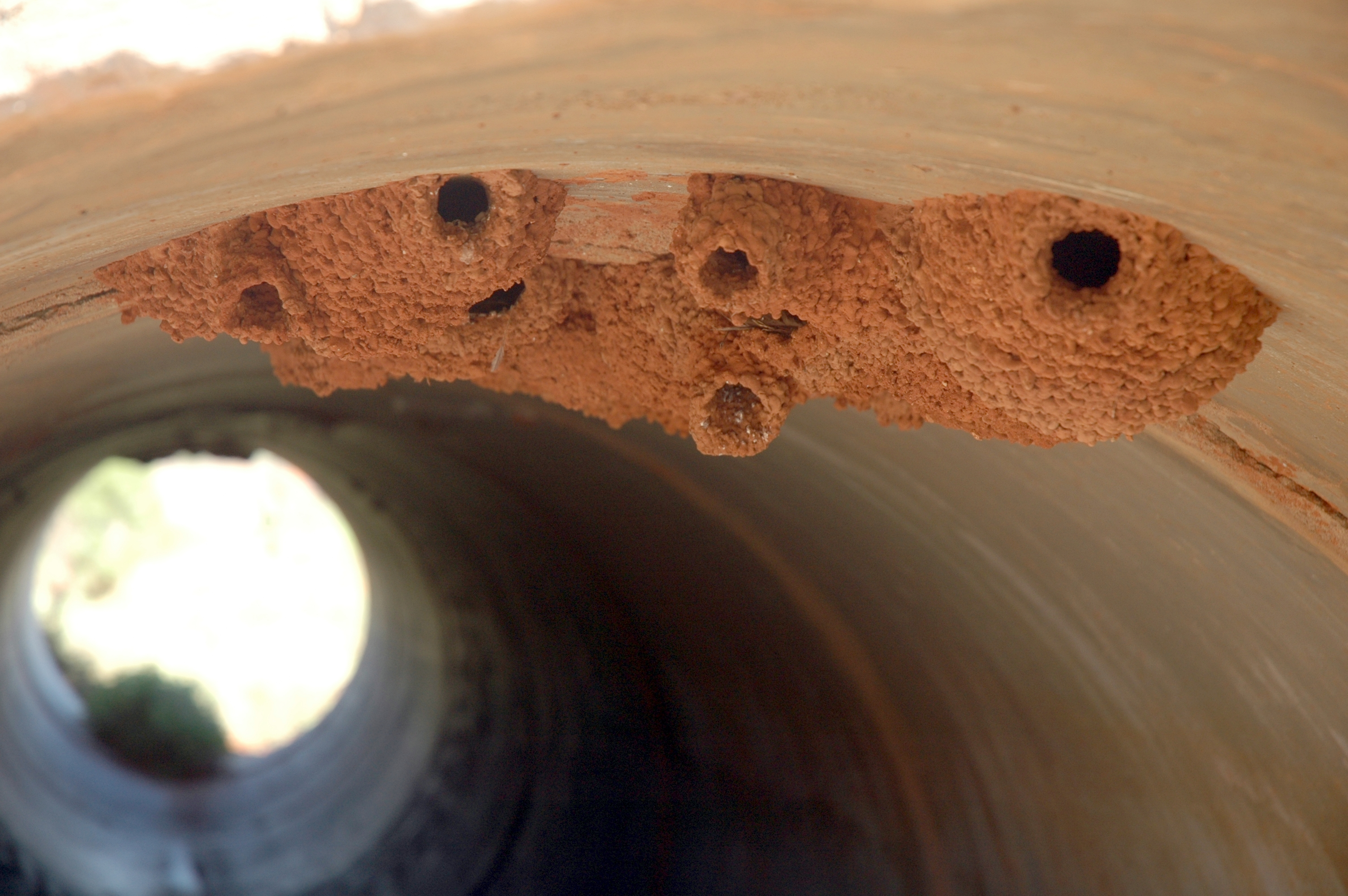 Insect nest in culvert near Wilcannia New South Wales Australia edit: this photo actually depicts nests of the Bottle Swallow common under bridges and pipes in Australia (Edited by Skidlid)